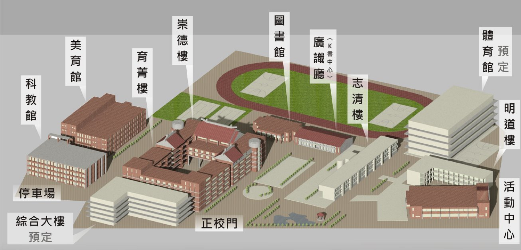 Visualization for the new building at National Wuling Senior High School, revealed in a published official document.